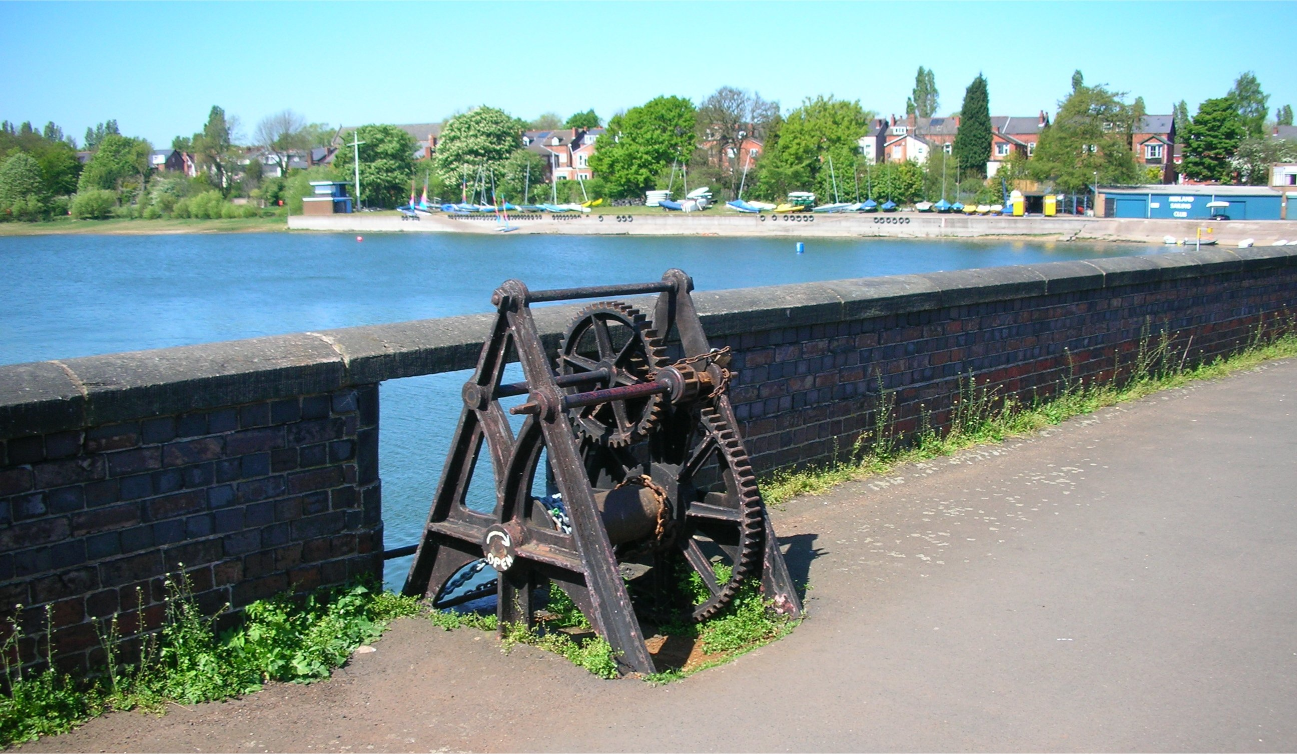 View from the dam of Edgbaston Reservoir, Birmingham, England, looking towards the boat house on the north bank. In the foreground, the sluice gate winding gear to the feeder to the Icknield Port Loop branch at the foot of the dam, built by James Brindley, on the Birmingham Main Line canal (at Birmingham Level). Another sluice gate just along the dam feeds the Old Line (Wolverhampton Level) of the Birmingham Canal Navigations via the Birmingham Feeder and Engine Arm at Smethwick. Photographed by me 1 May 2007. Oosoom 12:50, 3 May 2007 (UTC).